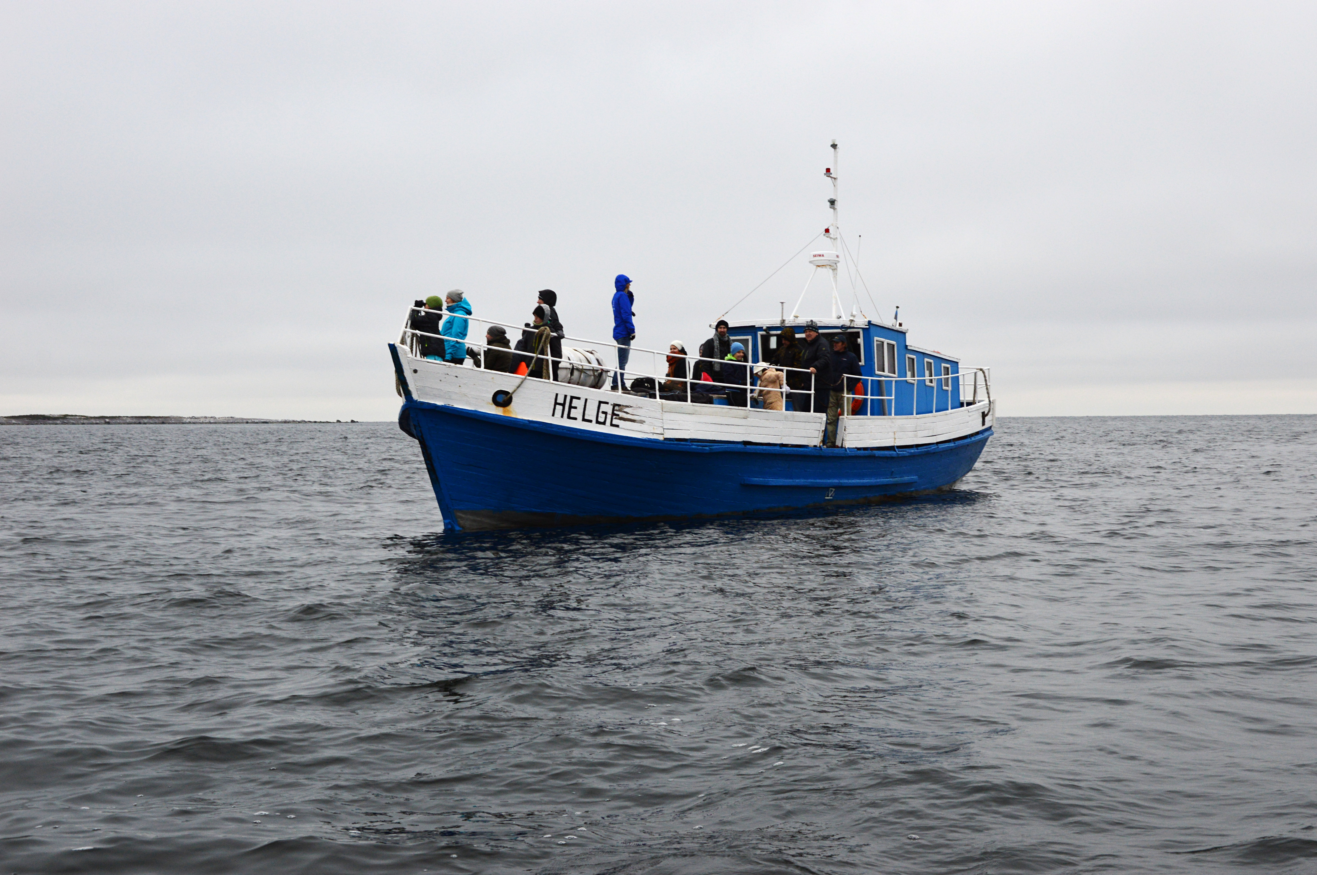 Seal watching on the eastern side of Malusi Islands, Estonia. Former postal boat Helge.